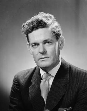 A 1964 black and white portrait of Tom Hughes, MHR for Parkes